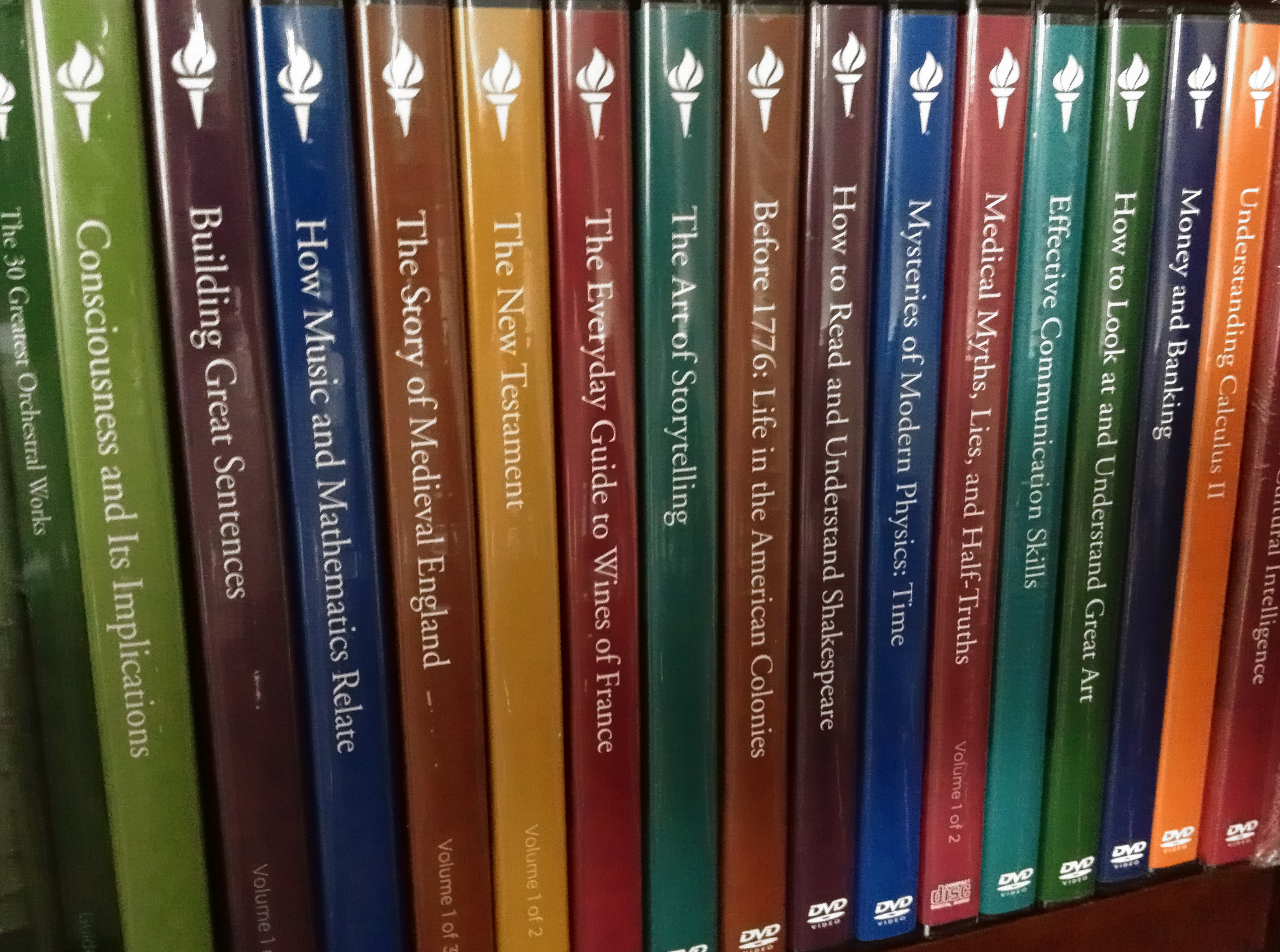 The Great Courses are a series of college-level audio and video courses produced and distributed by The Teaching Company in conjunction with college professors.